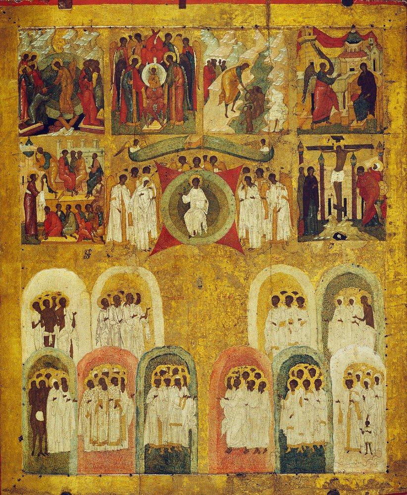 Icon of All Saints by Dionisius (Tretyakov Gallery, Moscow)